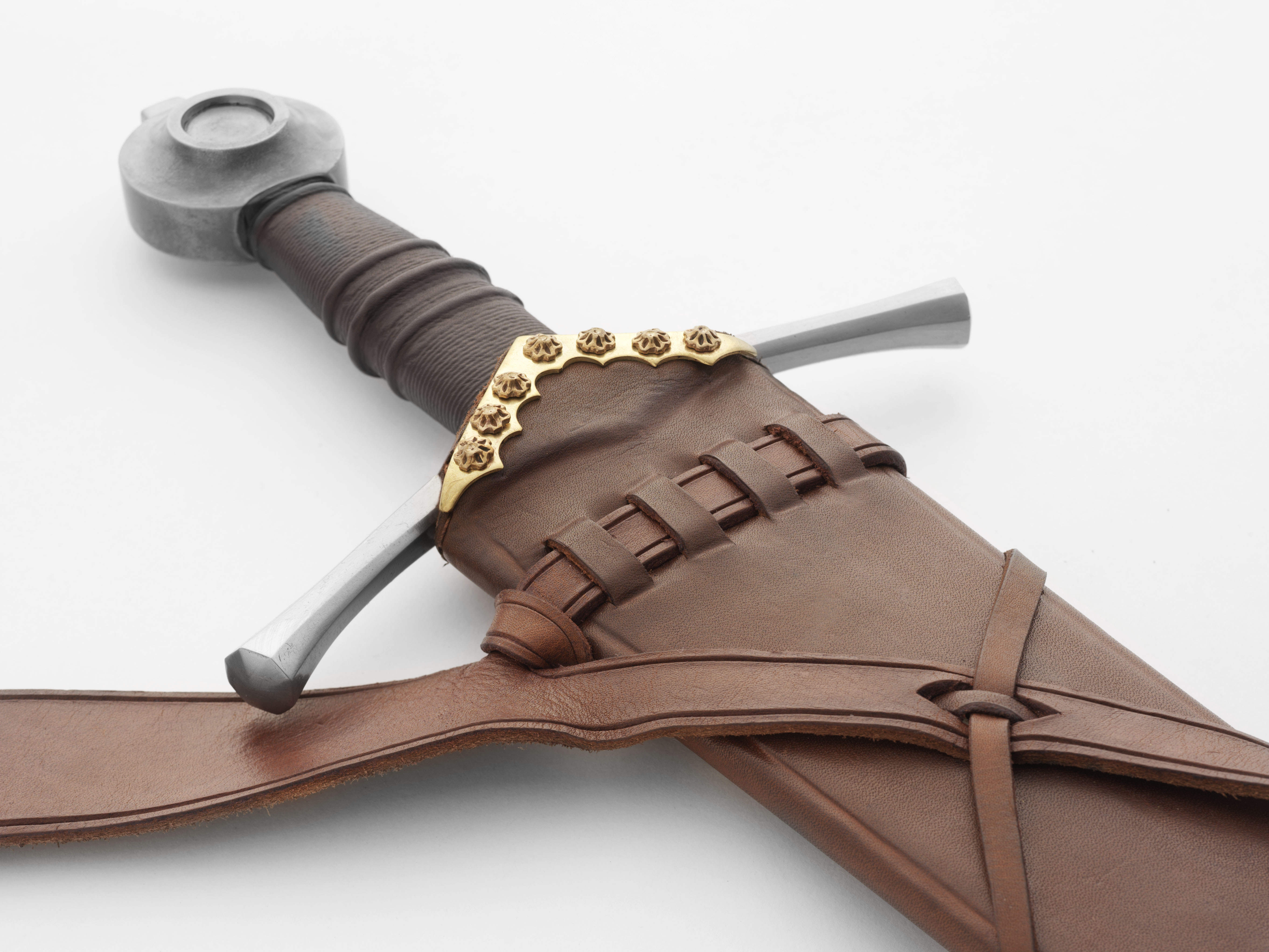 033 The Sovereign Limited Edition Medieval Sword